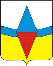 Yugo-Severnoe (Krasnodar krai), coat of arms